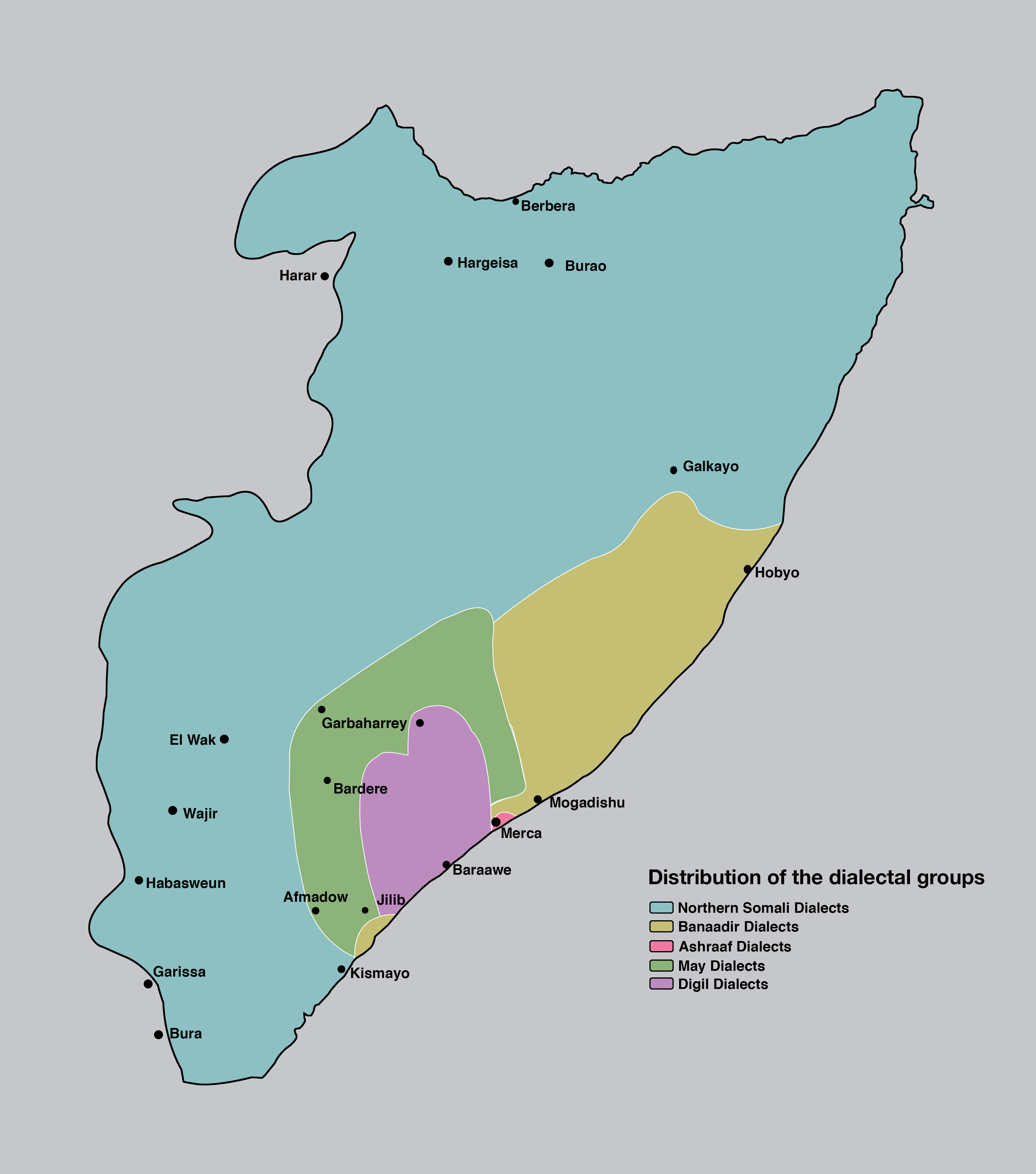 Distribution of Somali dialectal groups in East Africa based on research by Marcello Lamberti (1986).